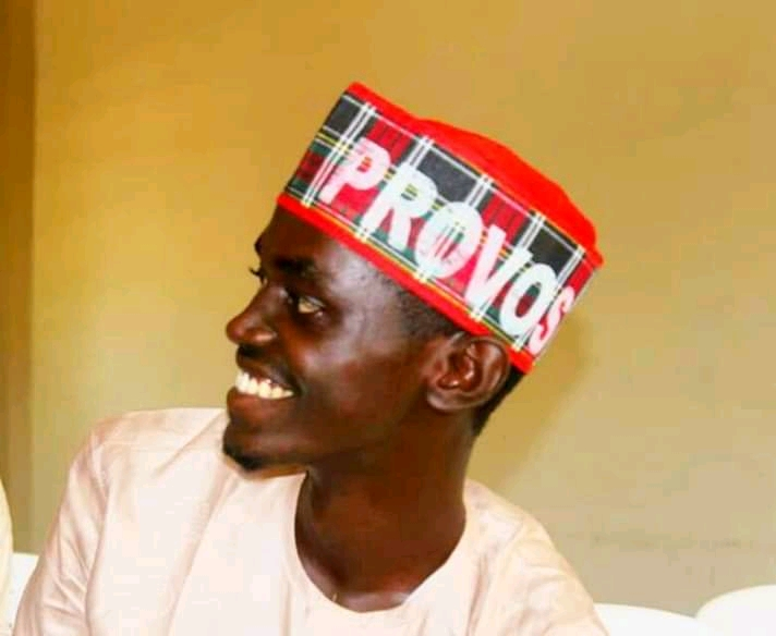 musaddam in 2018